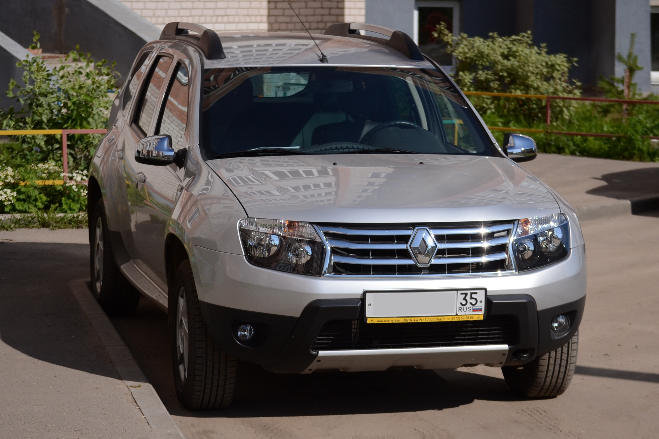 Renault Duster (Russian version)